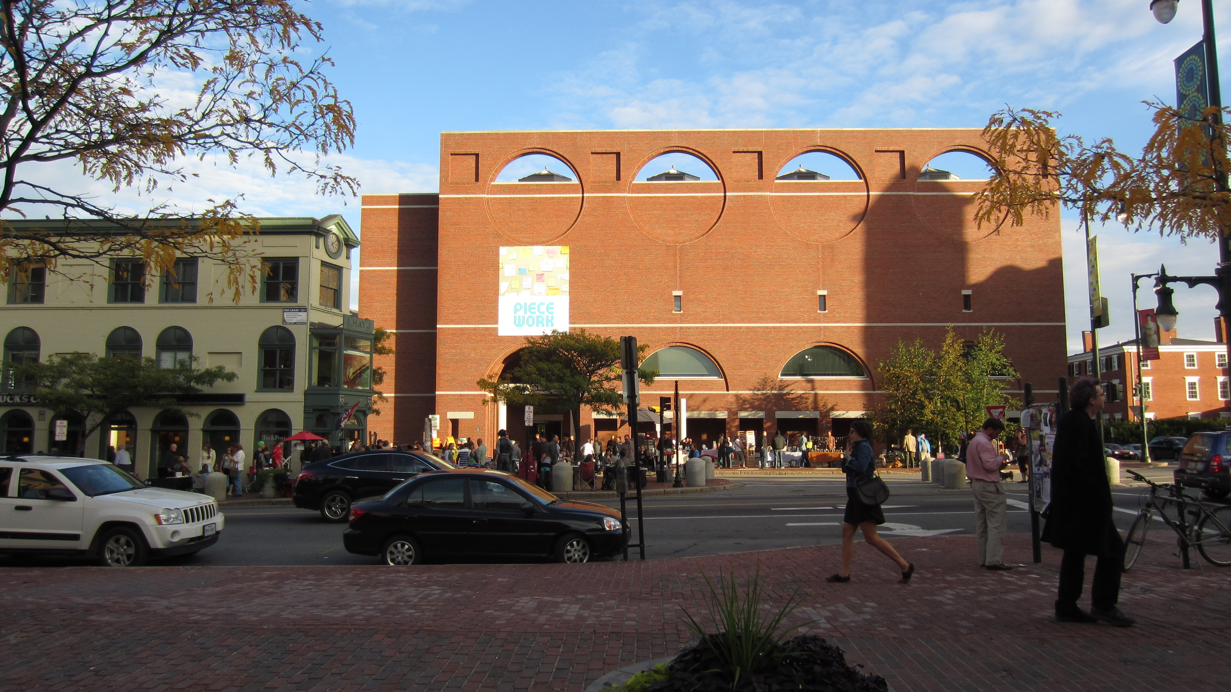 Arts District.